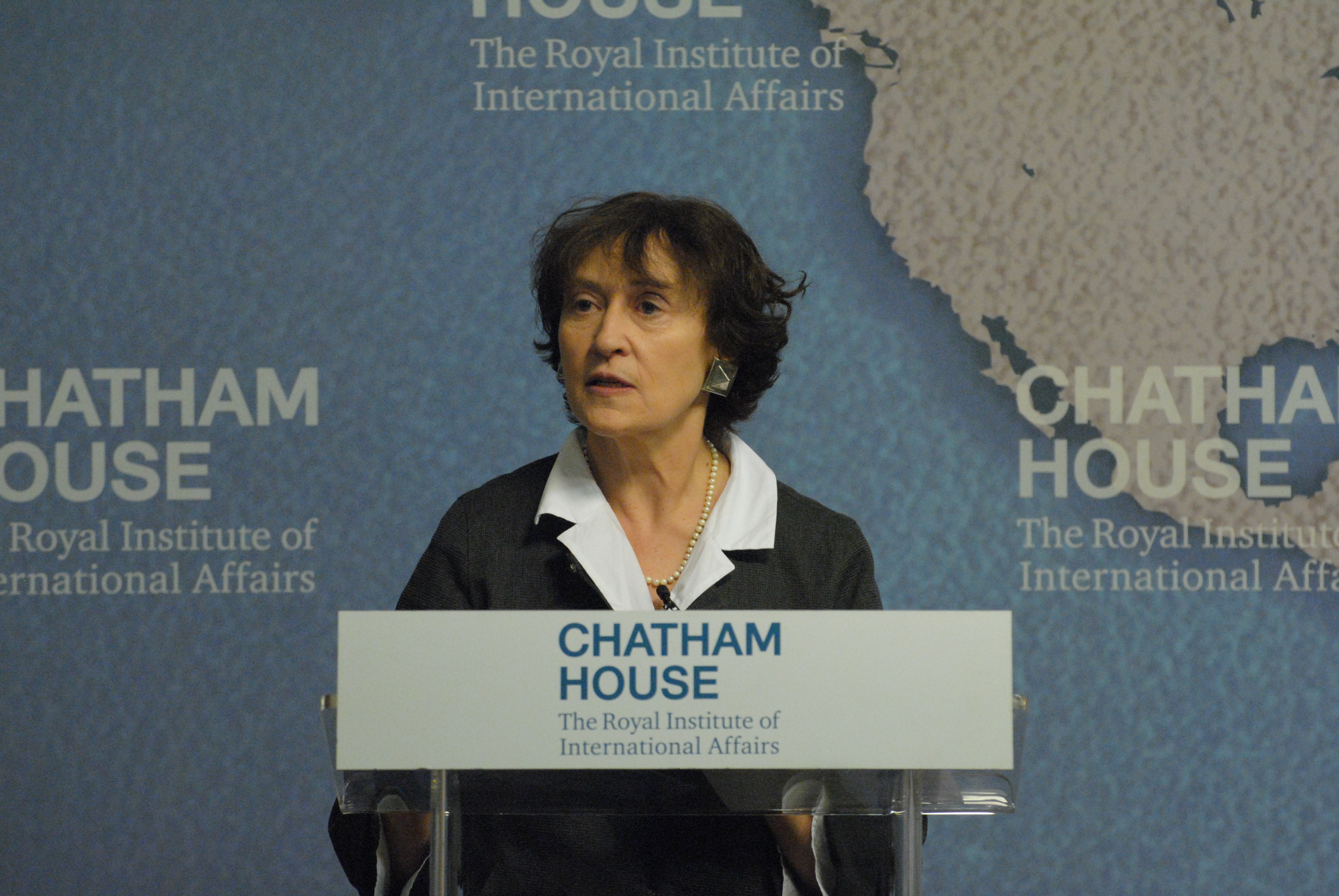 Transatlantic Economic Cooperation and the Global Economy, 13 February 2015, cht.hm/1KSSZr9